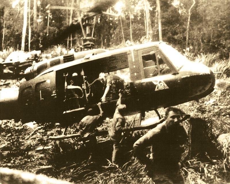 Bruce Crandall flies a rescue mission in Vietnam with fellow Medal of Honor Recipient Ed Freeman. The only time the two pilots and friends flew together, they rescued Freeman's co-pilot, Frank Moreno, who had crashed.